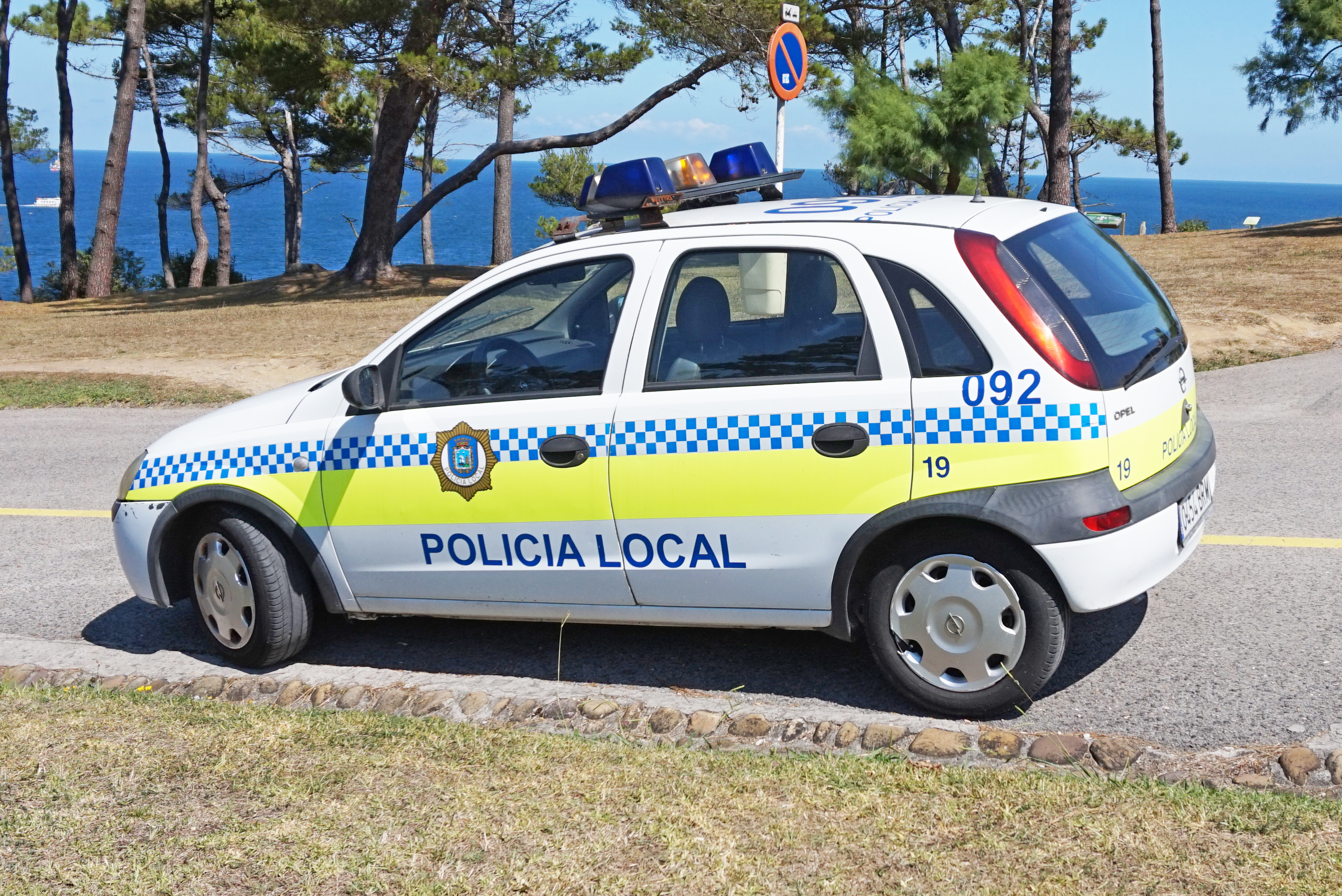 Police vehicle in Península de la Magdalena in Santander, Spain. This photograph was taken with a Sony Alpha a5000.